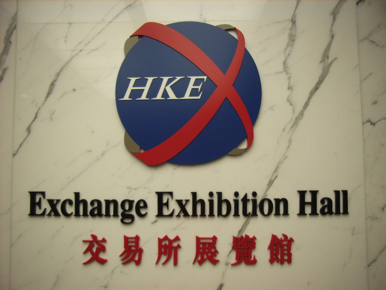 香港交易所, 交易所展覽館, HKEX #0388, The Exchange Exhibition Hall will be open to the public starting from May 15th, 2006